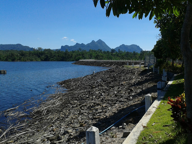 สันเขื่อนกิ่วคอหมา